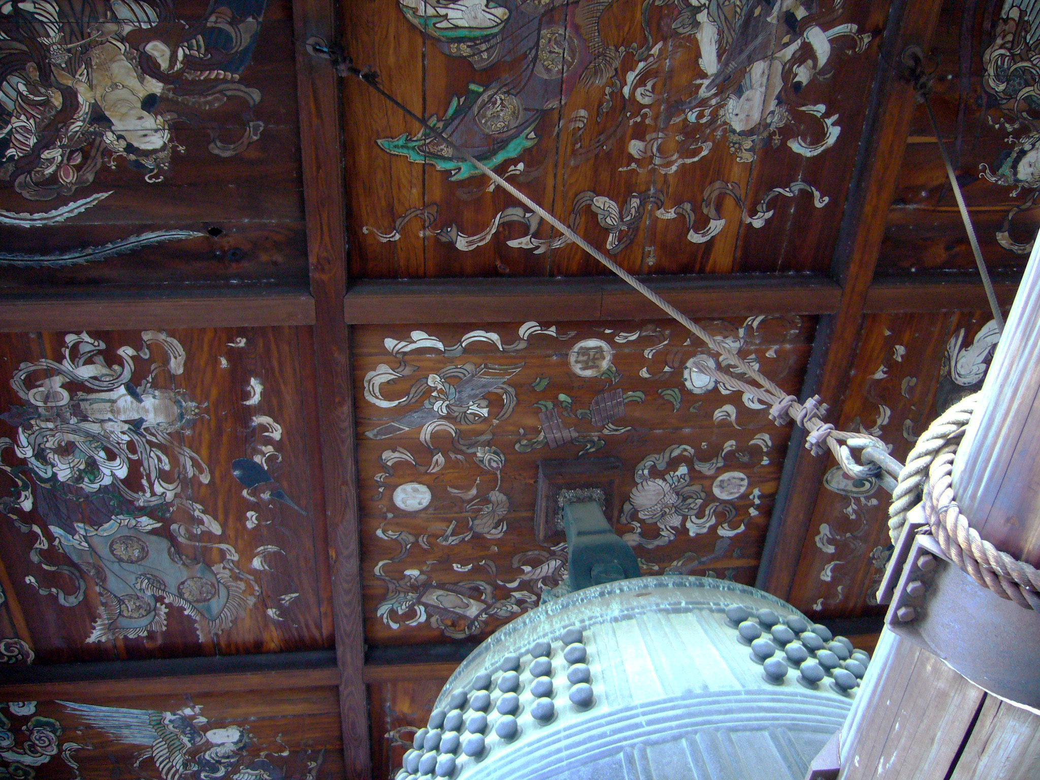 Hōkō-ji, a buddhist temple in Kyoto, Kyoto prefecture, Japan